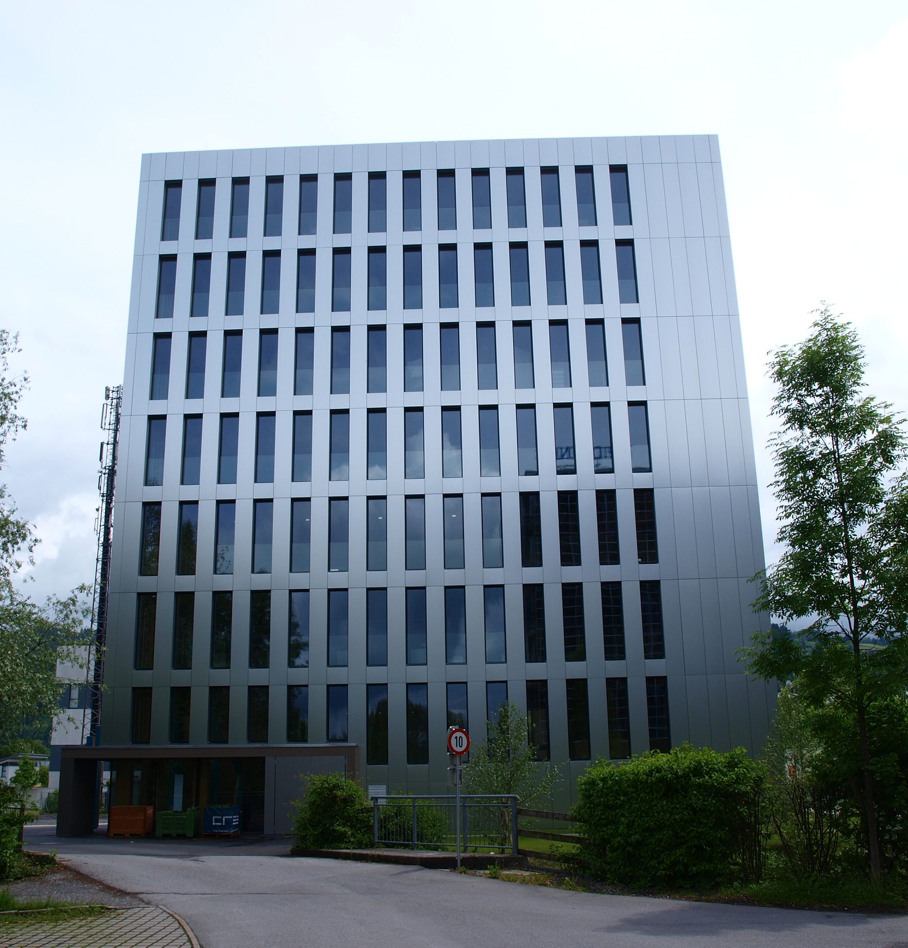 LCT ONE (LifeCycle Tower No. 1), Dornbirn, Vorarlberg Austria. multifunctional demonstrationbuilding in wood-boltwork. West side of the building.